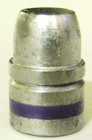 255 grain Elmer Keith style .45 caliber Semi Wadcutter.